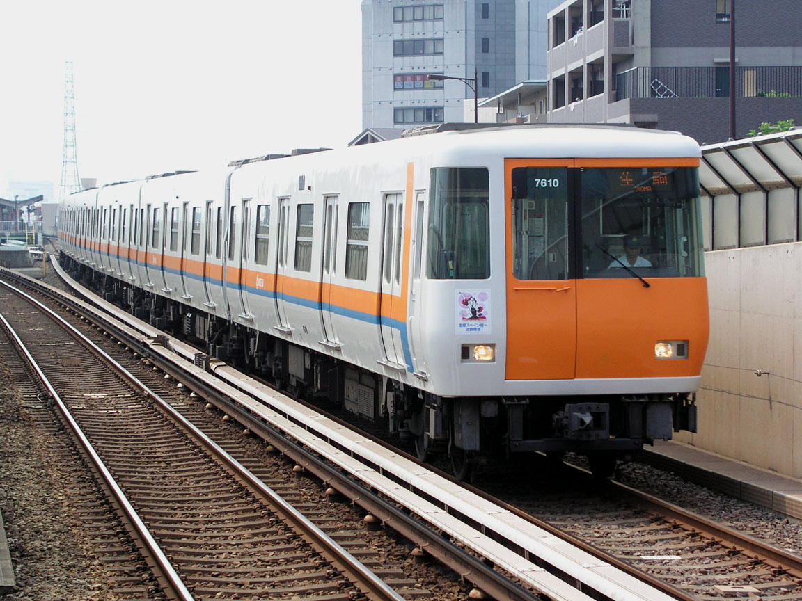 Kintetsu type 7000 for Keihanna Line